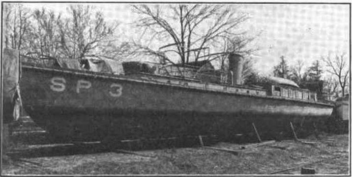 Photo from the June 1919 issue of Motor Boating magazine